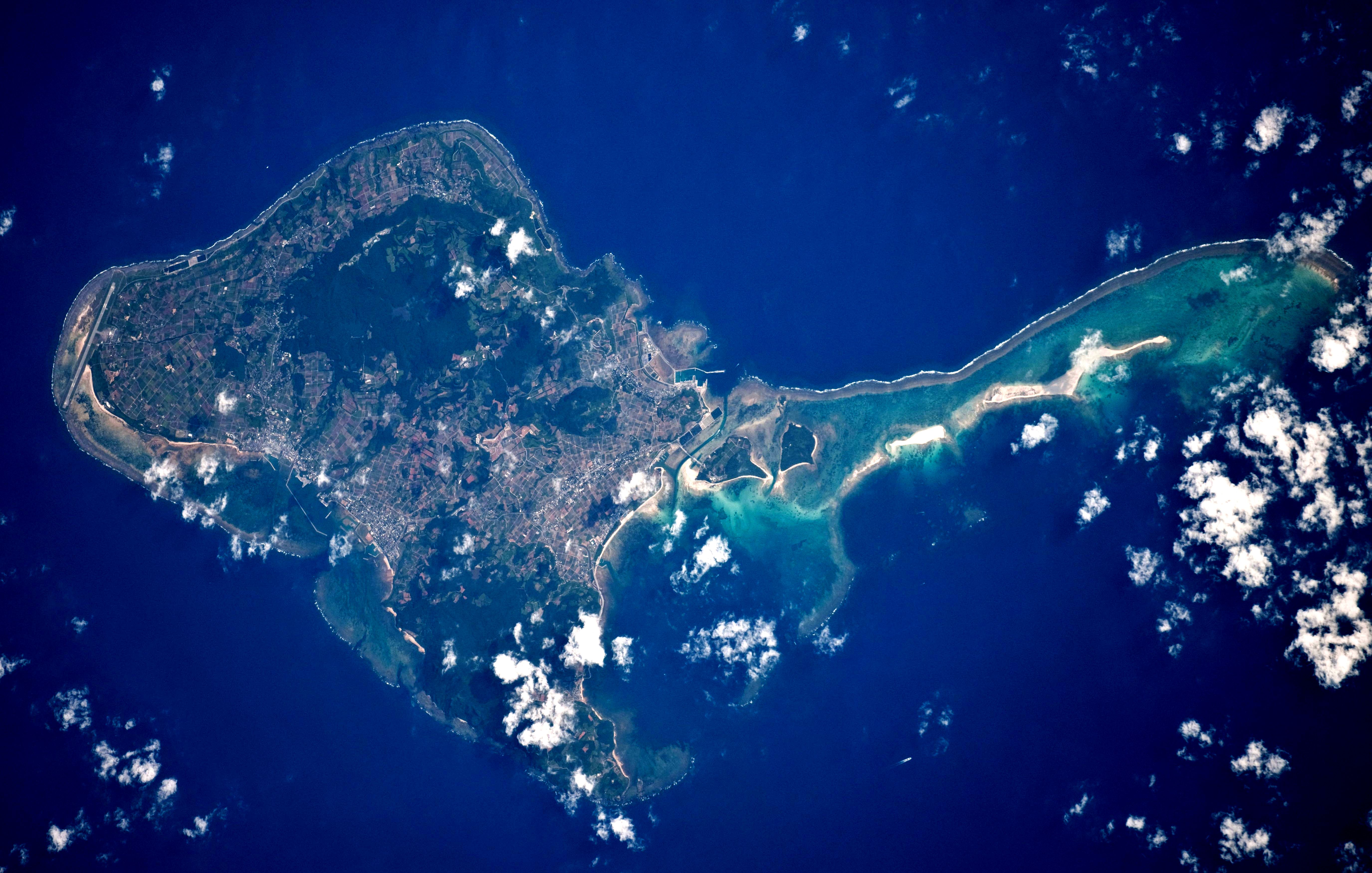 Kume-jima, Okinawa Prefecture, Japan.